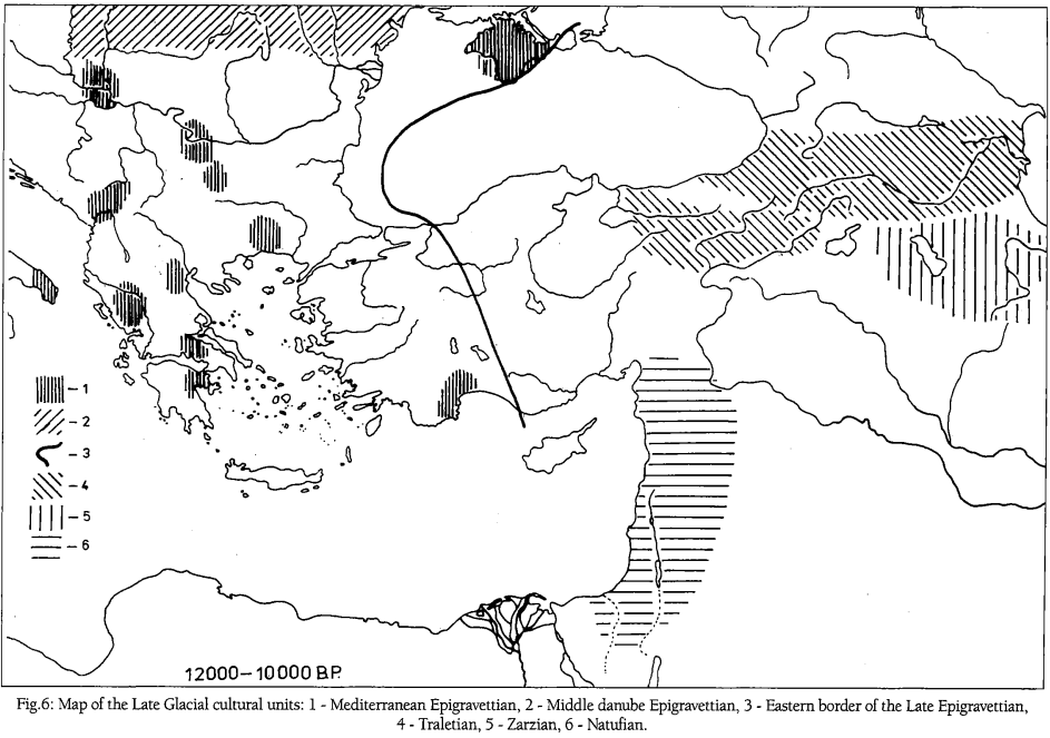 Map of distribution of Epi-Gravettian, Trialetian, Zarzian and Natufian cultures in the Balkans, Anatolia, Caucasus and the Middle East in 12000-10000 BP. Extracted under Creative Commons Attribution License (CC BY) from: J. K. Kozlowski, M. Kaczanowska. Gravettian/Epigravettian sequences in the Balkans and Anatolia, 2004, (pp.5-18). Mediterranean Archaeology and Archaeometry, Volume 4 - Issue 1. Link